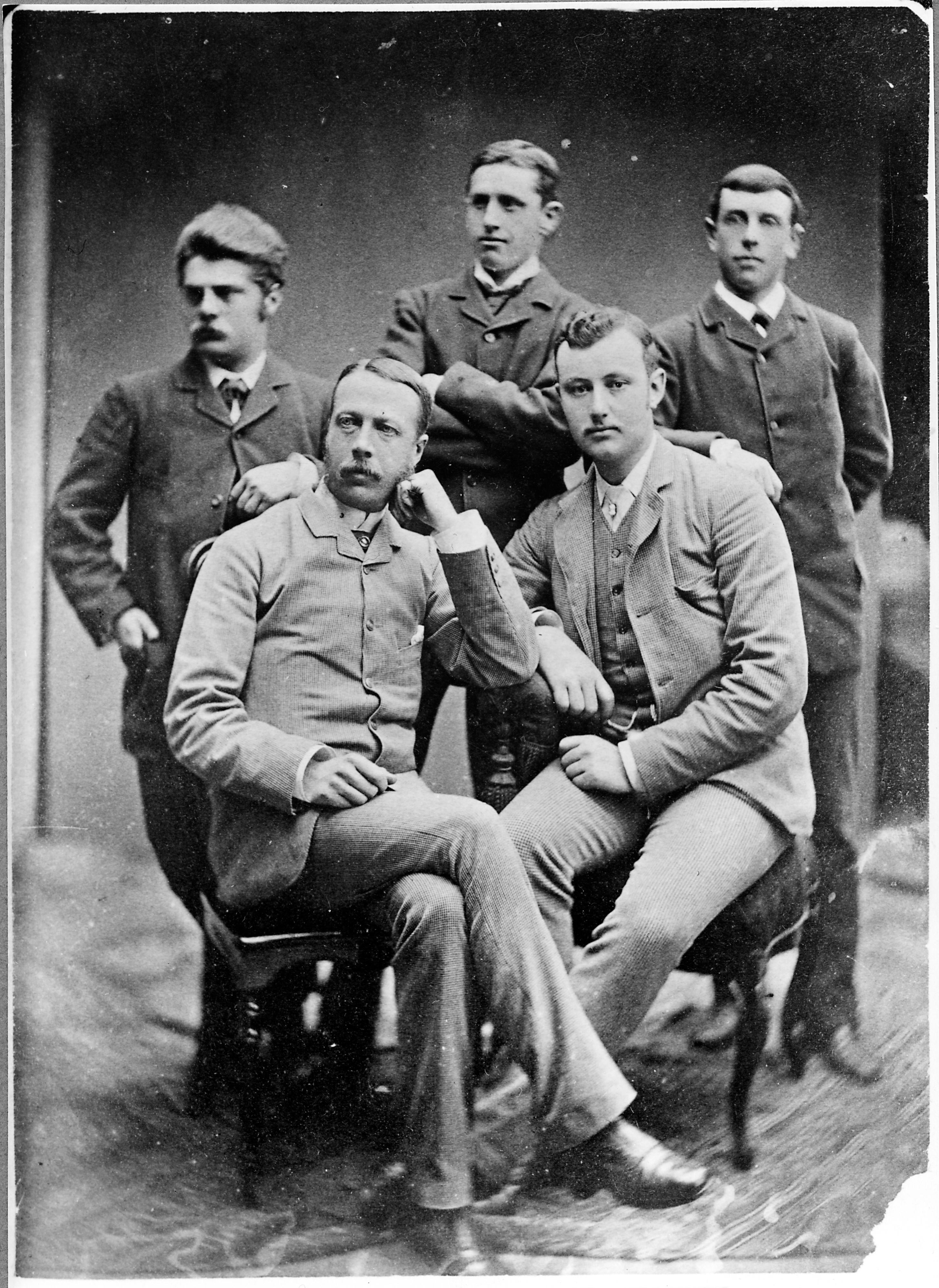 The engineer Henrik Wennerström (standing to the left) with four english engineers: Percy Williams, Charles Arthur Strutt, Charles Thomas Broxup and Jones during the construction of the Iron Ore Line 1883-1890